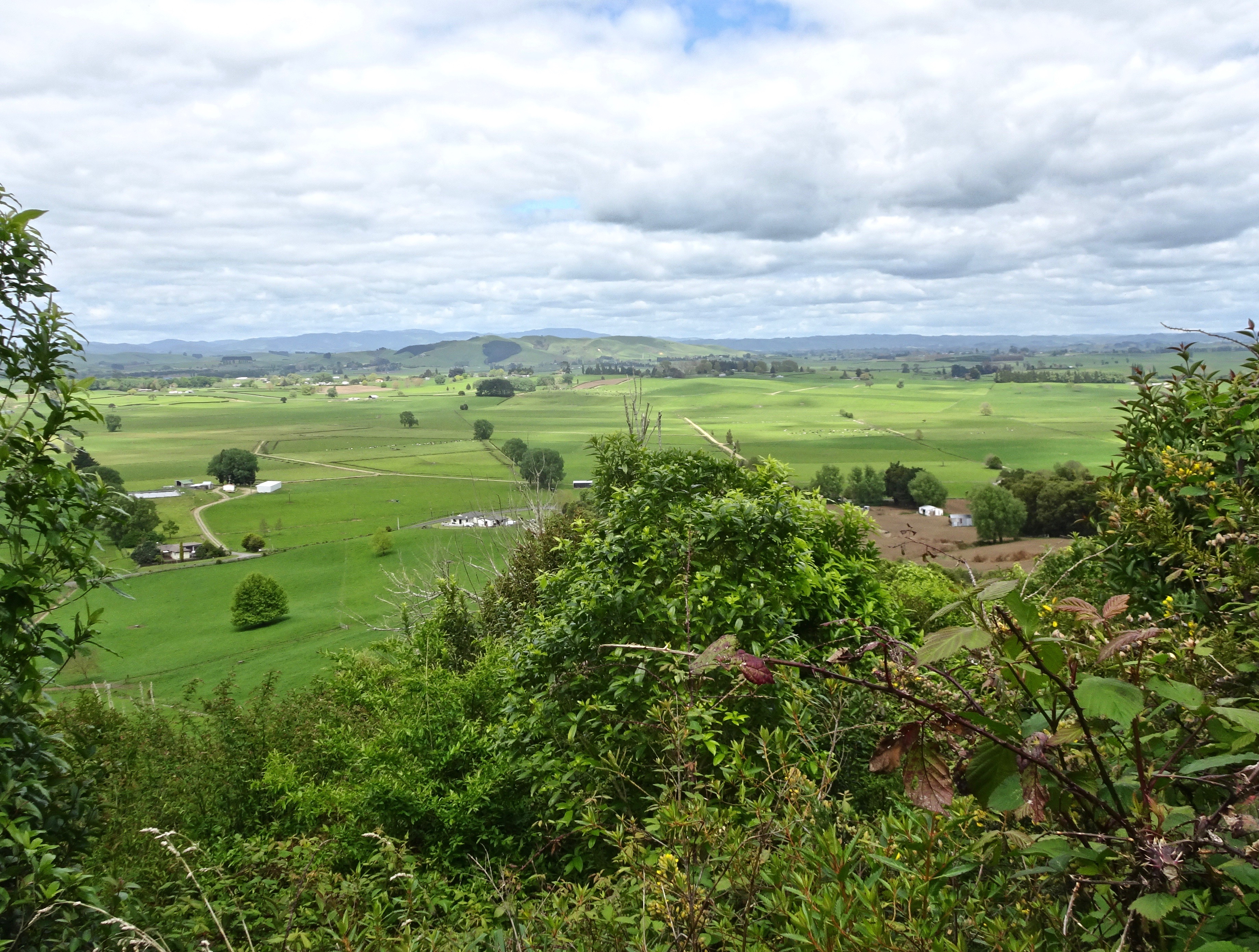 The swamp was drained about twenty years after the railway was built, despite promises that the railway building would not affect the eels in the swamp